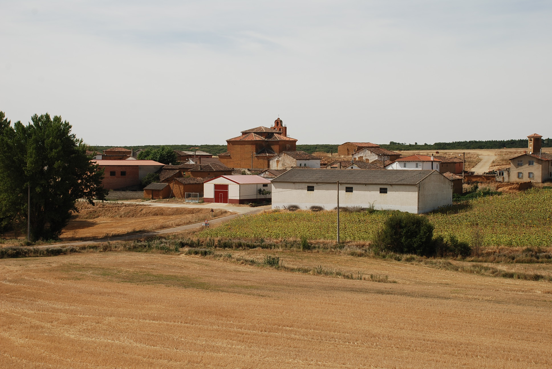 San Martín del Monte (Palencia, Castile and León).